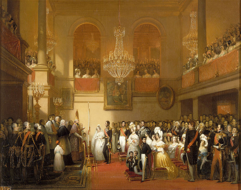 Wedding of Marie Louise d'Orléans and Leopold I of Belgium in the chapel of the Château de Compiègne